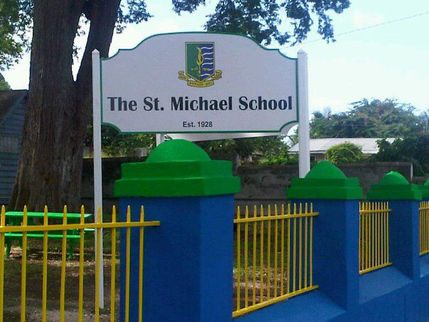 The entrance